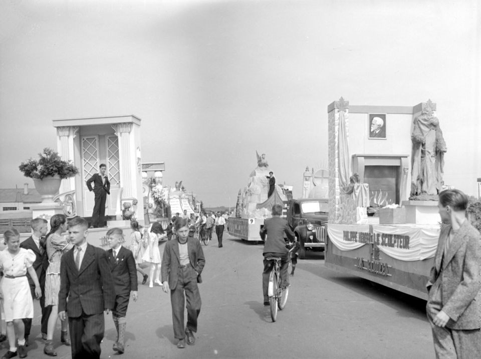 Parade floats of the parade of St.-Jean-Baptiste in Montreal are ready to go. We see one dedicated to sculptor Philippe Hébert.